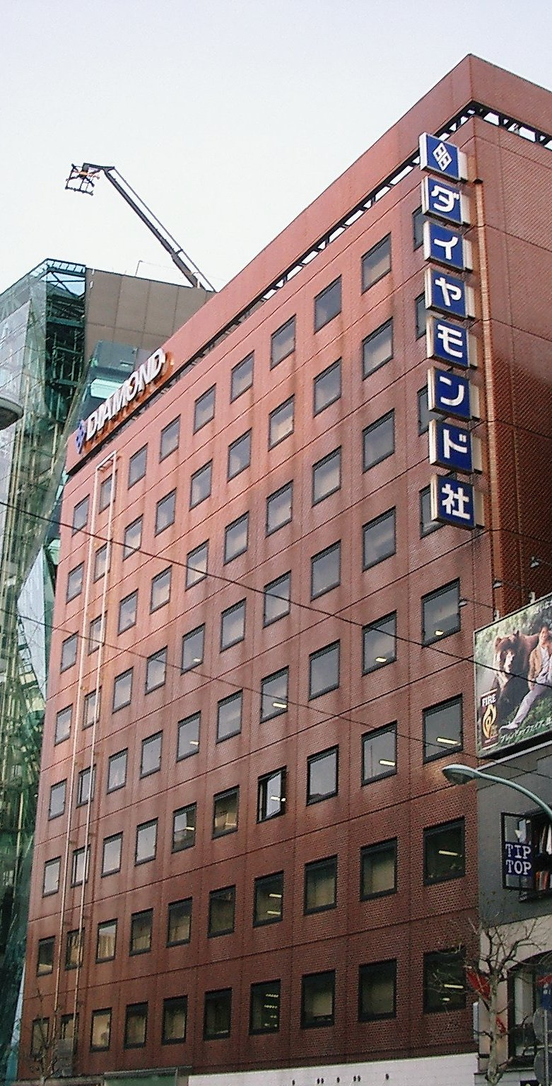 the headquarters of Diamond ダイヤモンド社, the book publishing company of Japan